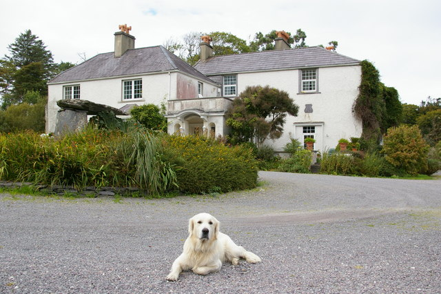 Glanlean House A gate at the end of a long narrow lane leads to this interesting garden and house. You have to ring the bell to gain access.